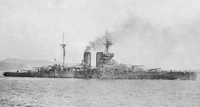 AWM caption : "Lemnos, Greece. 24 April 1915. Broadside view of the battleship HMS Queen Elizabeth leaving the island." NOTE : this version has been slightly clipped for use in the ship class heading box.